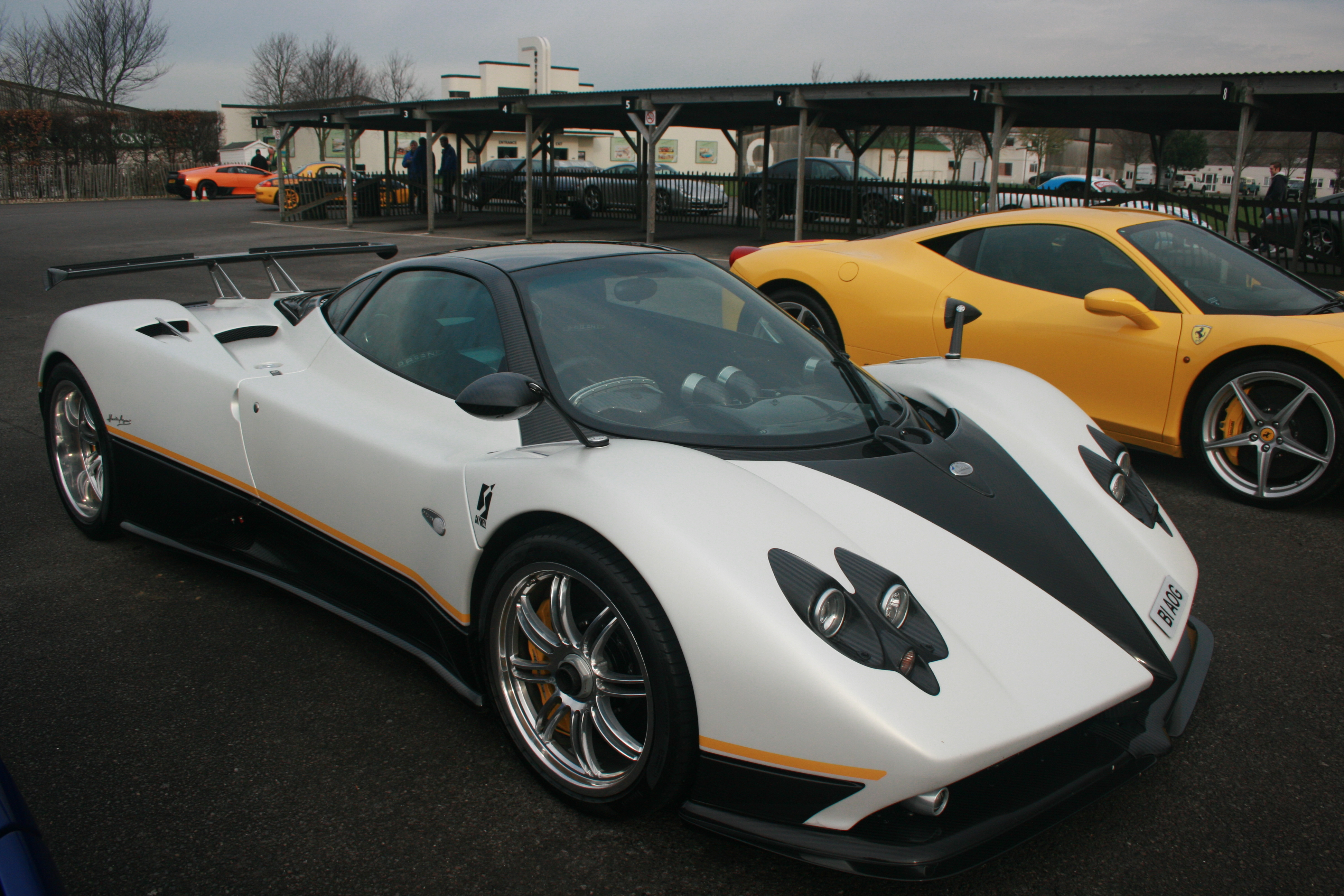 Custom built for Peter Saywell